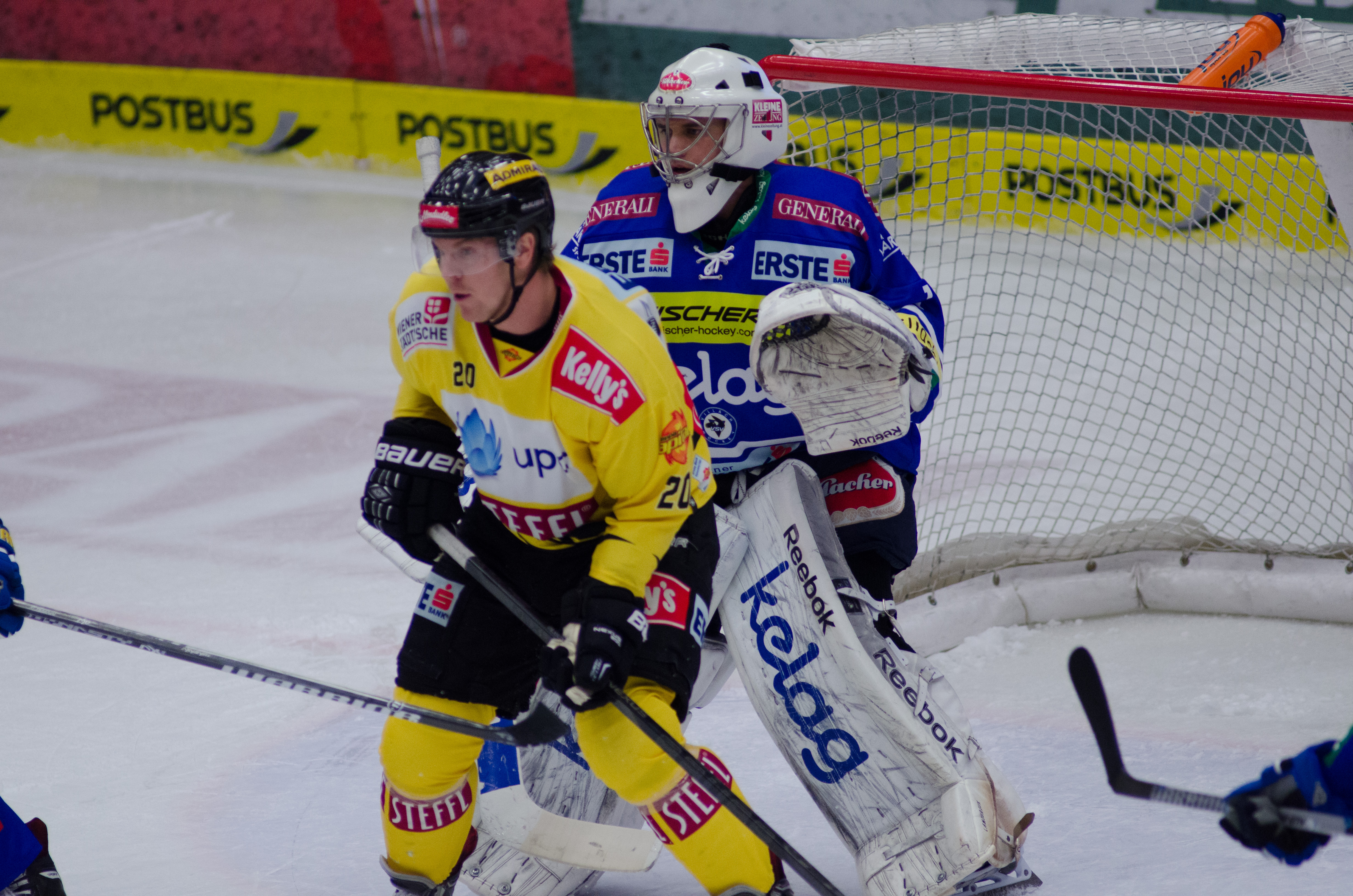 03.11.2013,Stadthalle Villach, AUT, EBEL, 33. Runde, EC VSV vs. UPC Vienna Capitals, im Bild Jean-Philippe Lamoureux, (EC VSV, #1),Marcus Olsson (UPC Vienna Capitals #20),// frostworx Pictures © 2013, PhotoCredit: frostworx / Alex Micheu